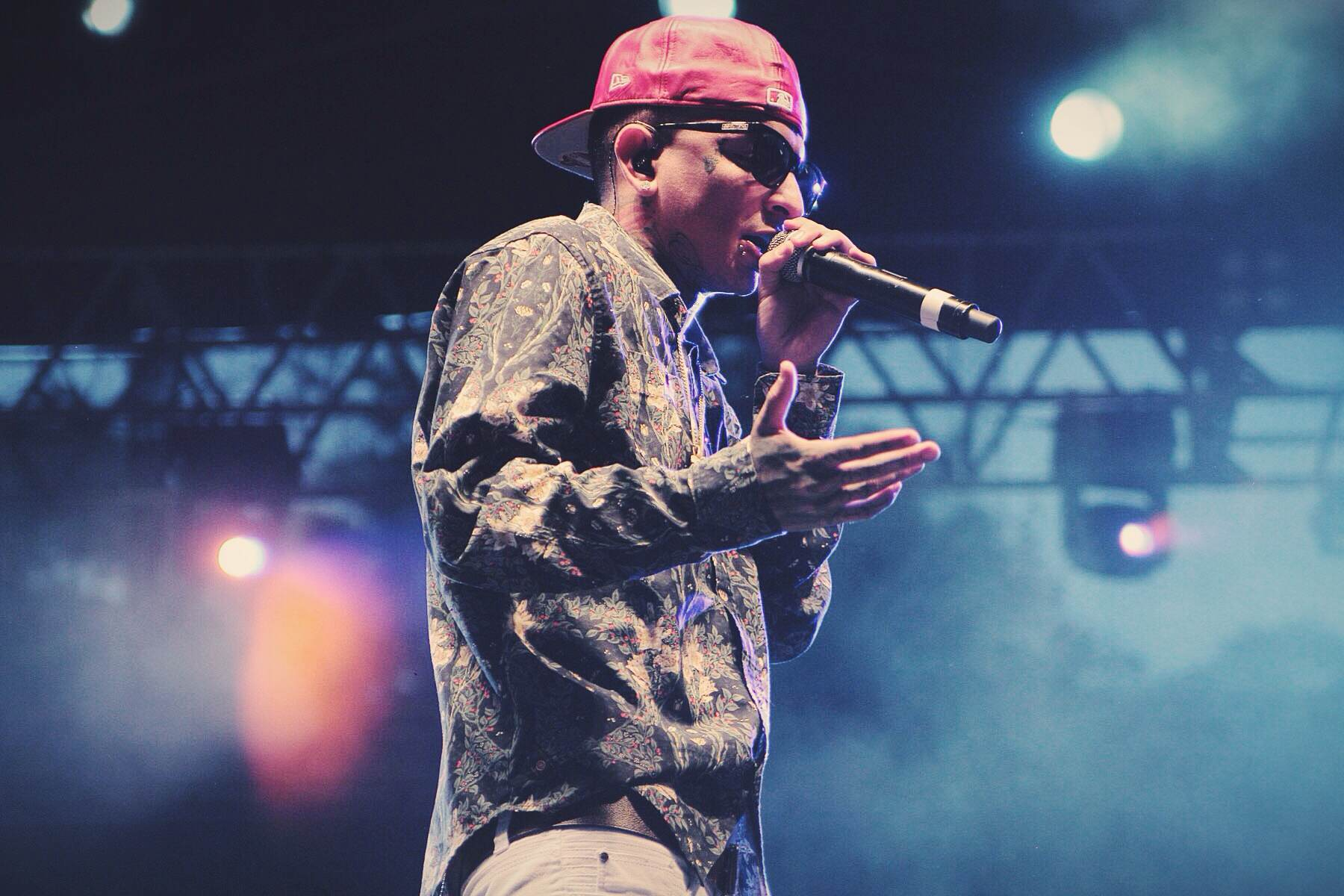 MC Guime Performing Live in Brazil